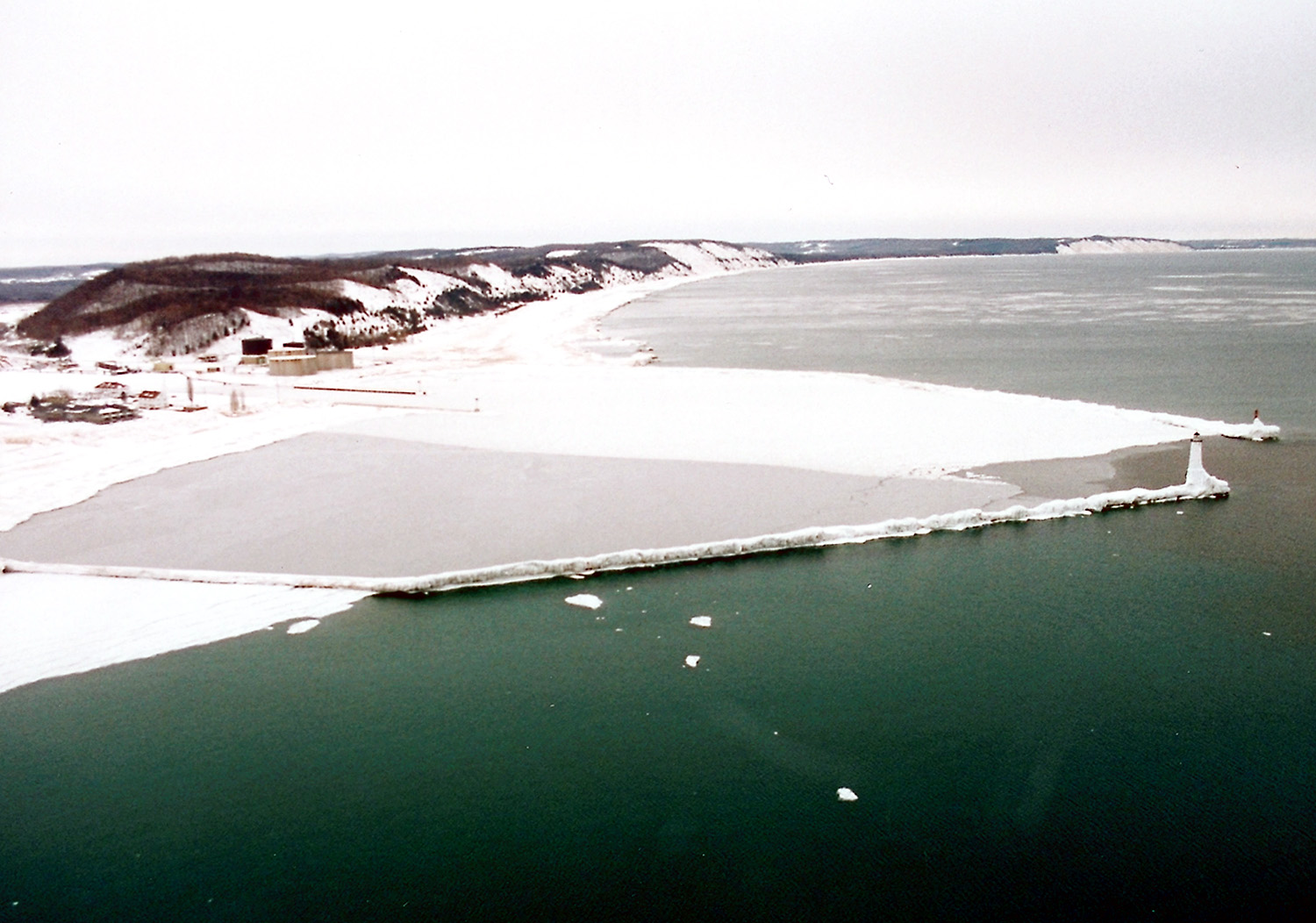 The entrance to the harbor and Betsie Lake at Frankfort, Michigan, USA. The harbor entrance is completely frozen over.